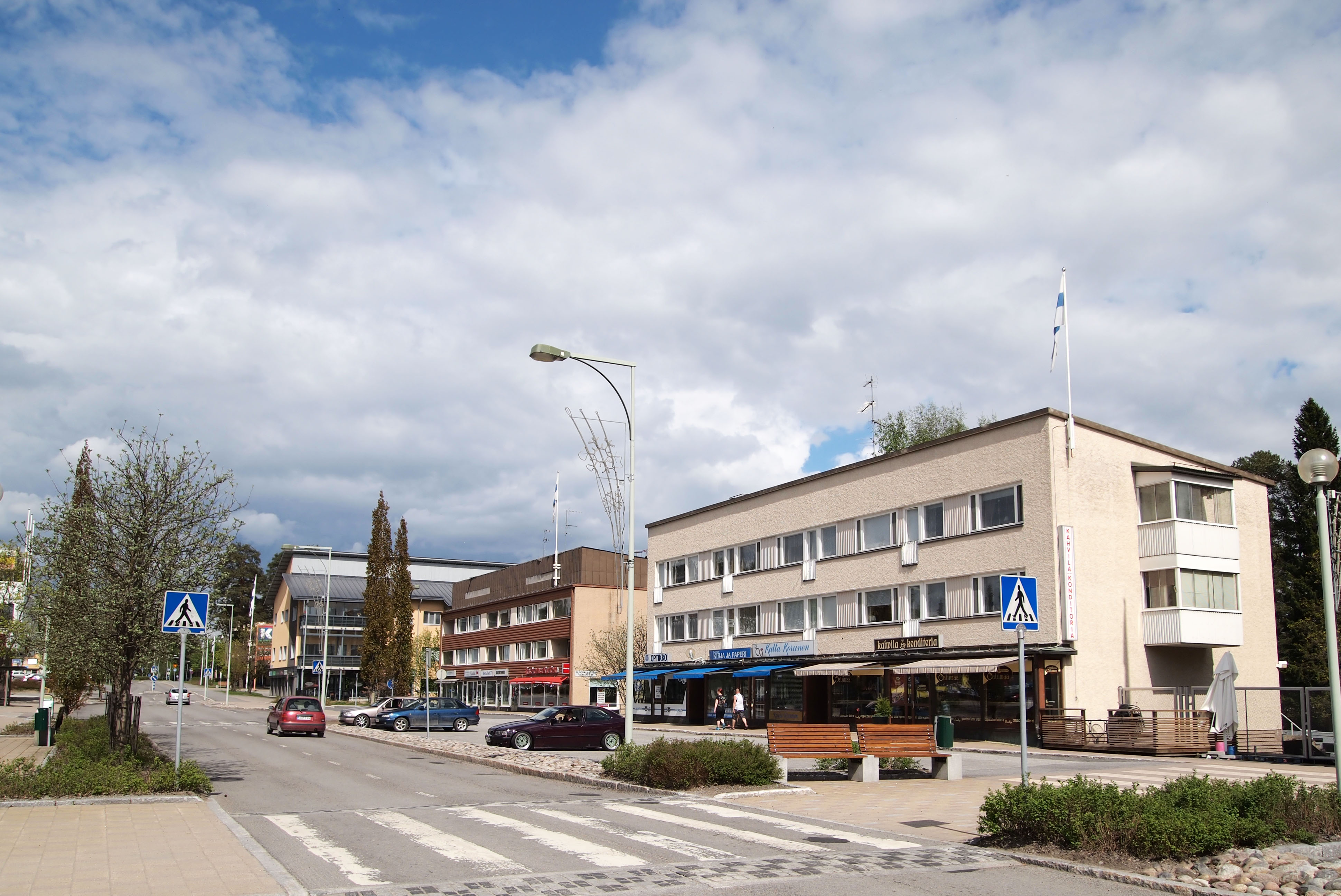 View along the street Keuruuntie in Keuruu, Finland.